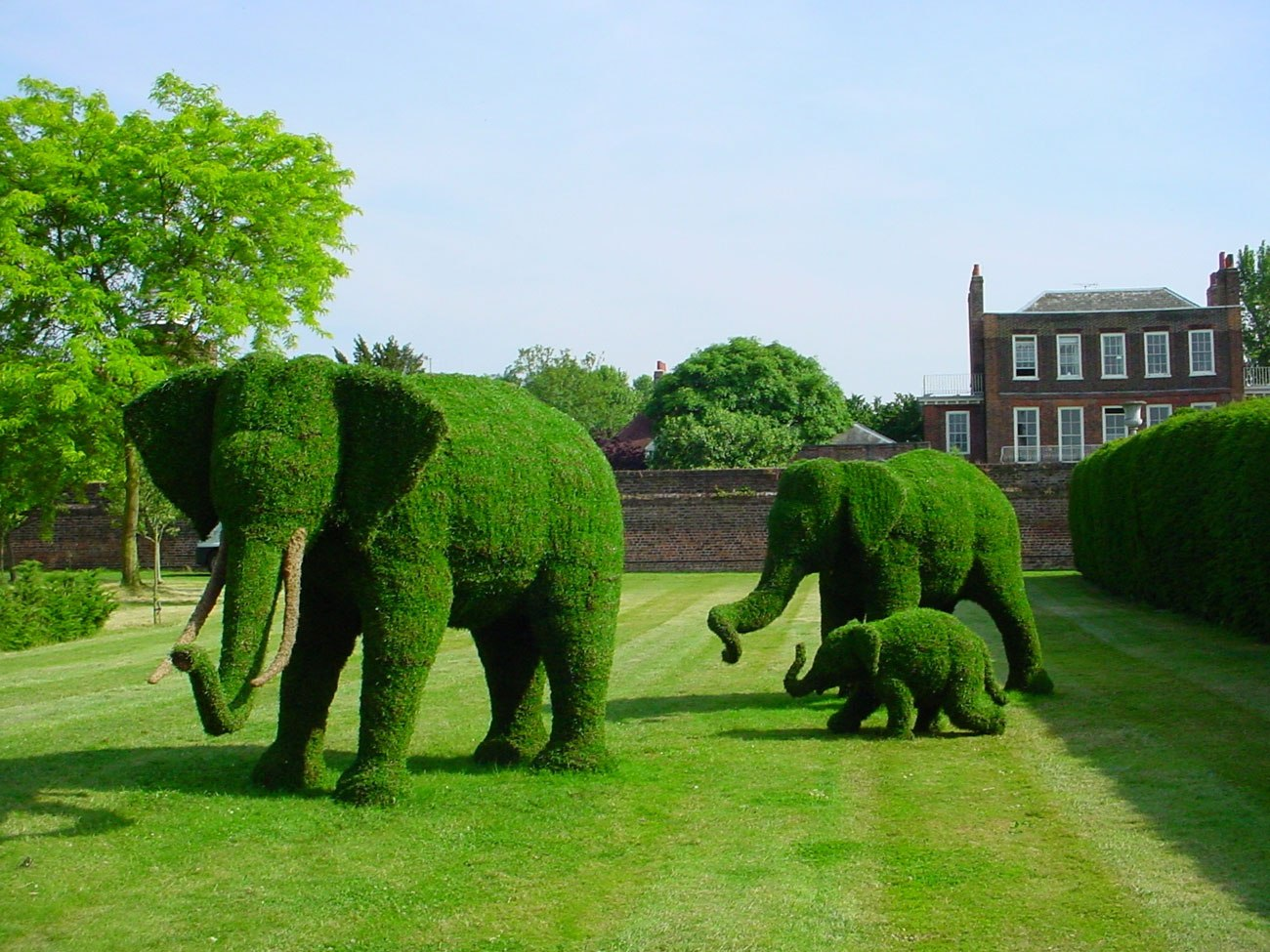 Roses-lavender-flower-show-prince-harry.sl.4.prince-harry-chelsea-flower-show-ss02